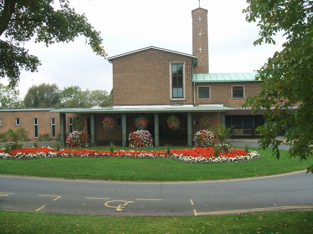 Bushbury Crematorium The main crematorium serving Wolverhampton is situated high up on the slopes of Bushbury Hill and is surrounded by a large cemetery.